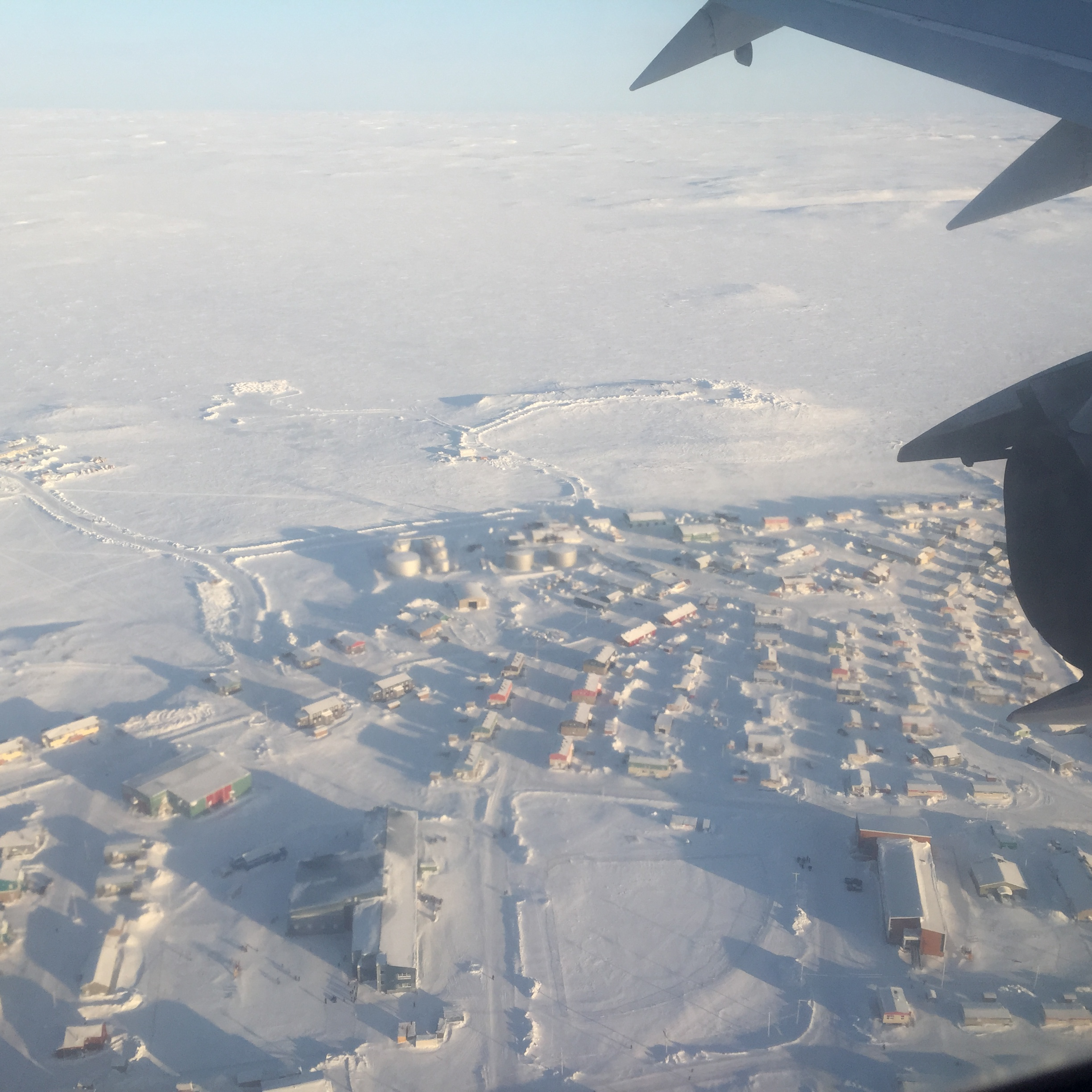 Puvirnituq (Nunavik, QC, Canada) -Air view of the village on 2018-02-07. In the foreground, on the right, there is primary school; left, high school. The outdoor playground is located between these two large buildings. In the background are the fuel tanks used for heating and electricity production (oil-fired power station). The airport is located on the left, north of the village.